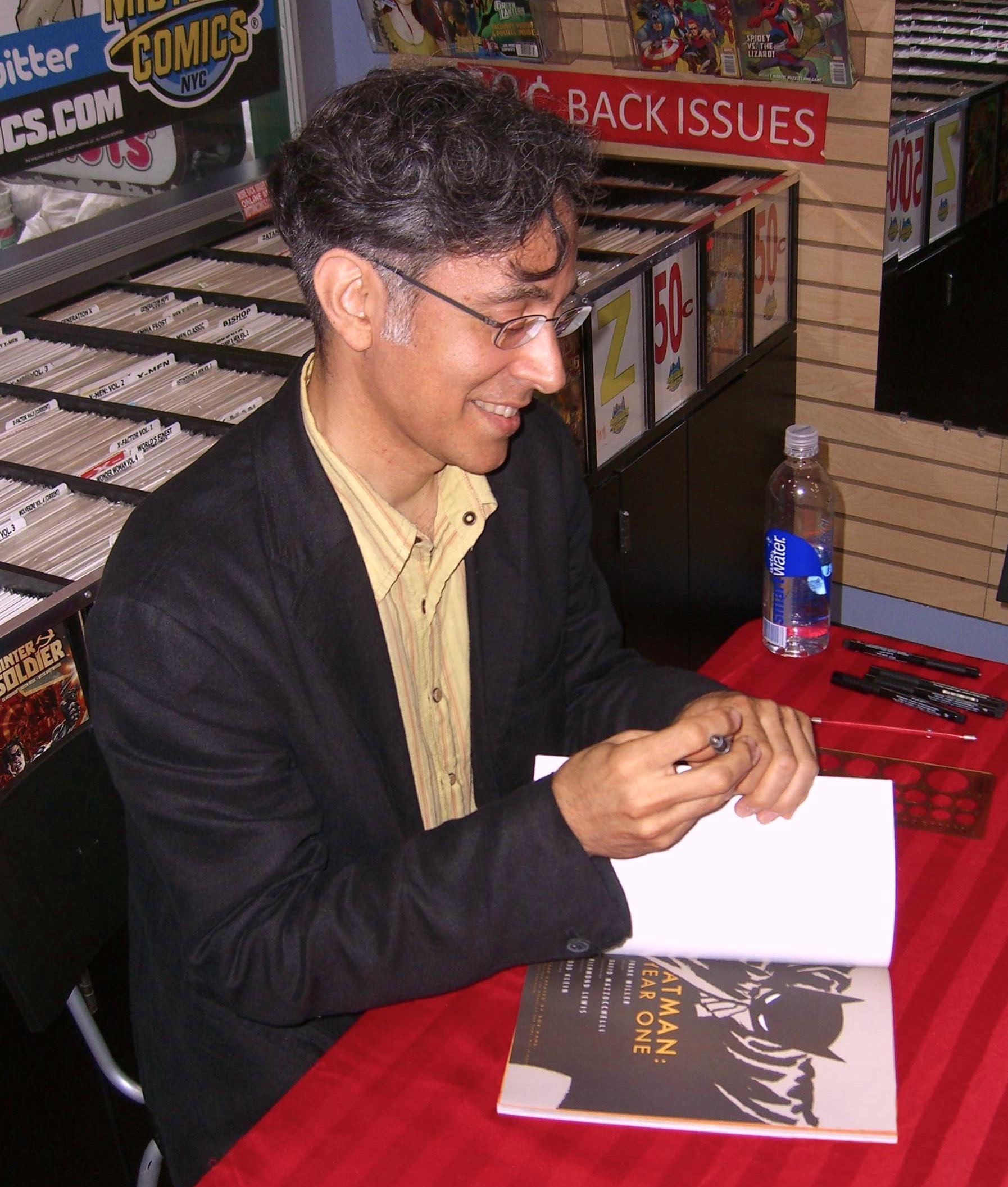 Comic book creator David Mazzucchelli at a June 28, 2012 signing for Daredevil Born Again: Artist's Edition at Midtown Comics Downtown in Manhattan. In the photo, he is signing a copy of Batman: Year One another seminal superhero storyline on which he gained notability in his early career. This photo was created by Luigi Novi. It is not in the public domain, and use of this file outside of the licensing terms is a copyright violation.